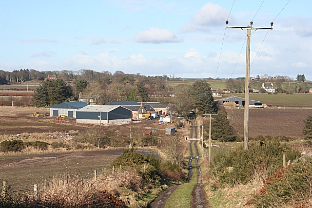 Gillybrands The Causey Mounth track leads north from Windyedge down to the Burn of Elsick, and Gillybrands Farm beyond, before linking to the public road at Cammachmore.